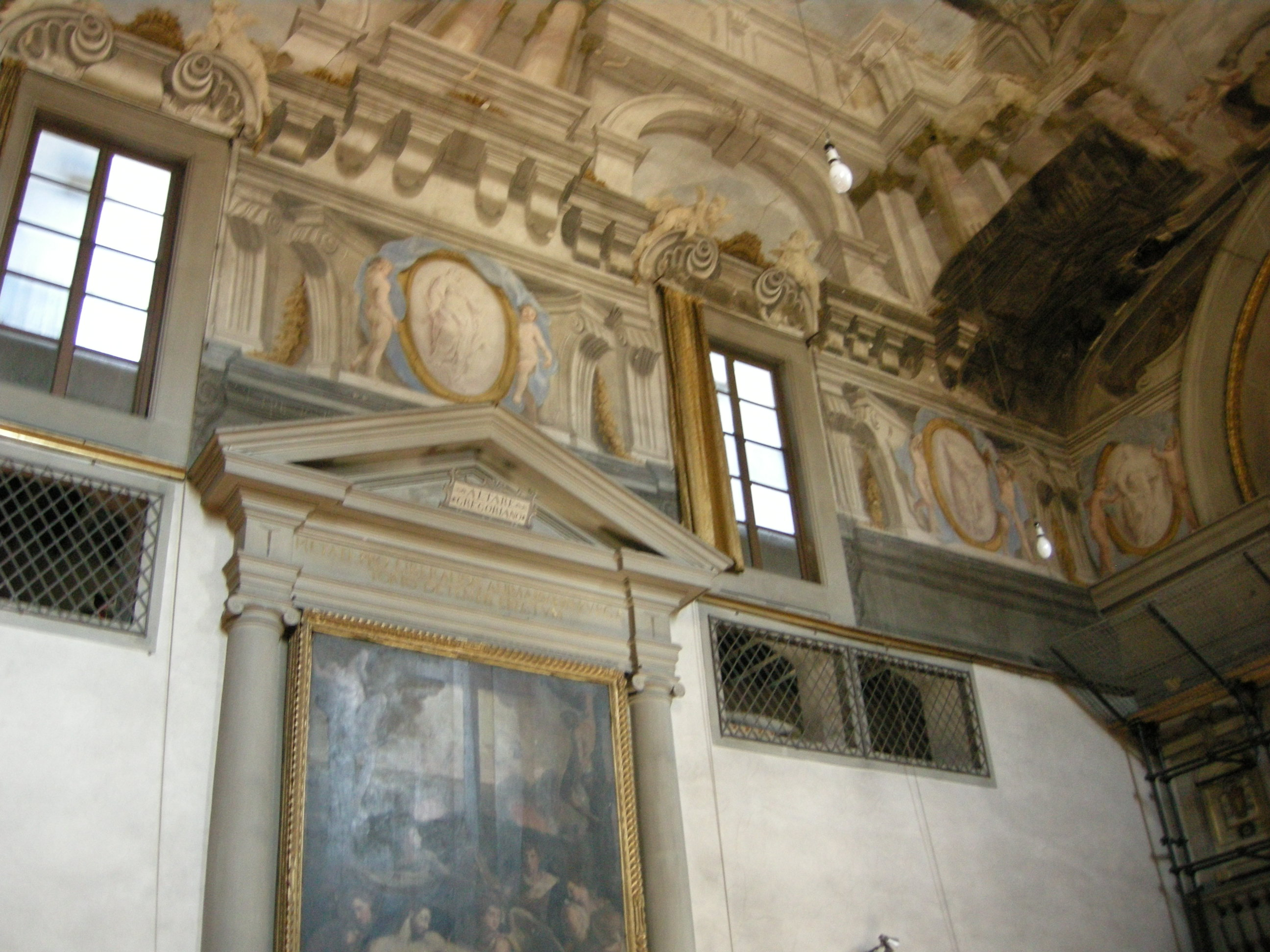 see filename, painters of Giuseppe Tonelli